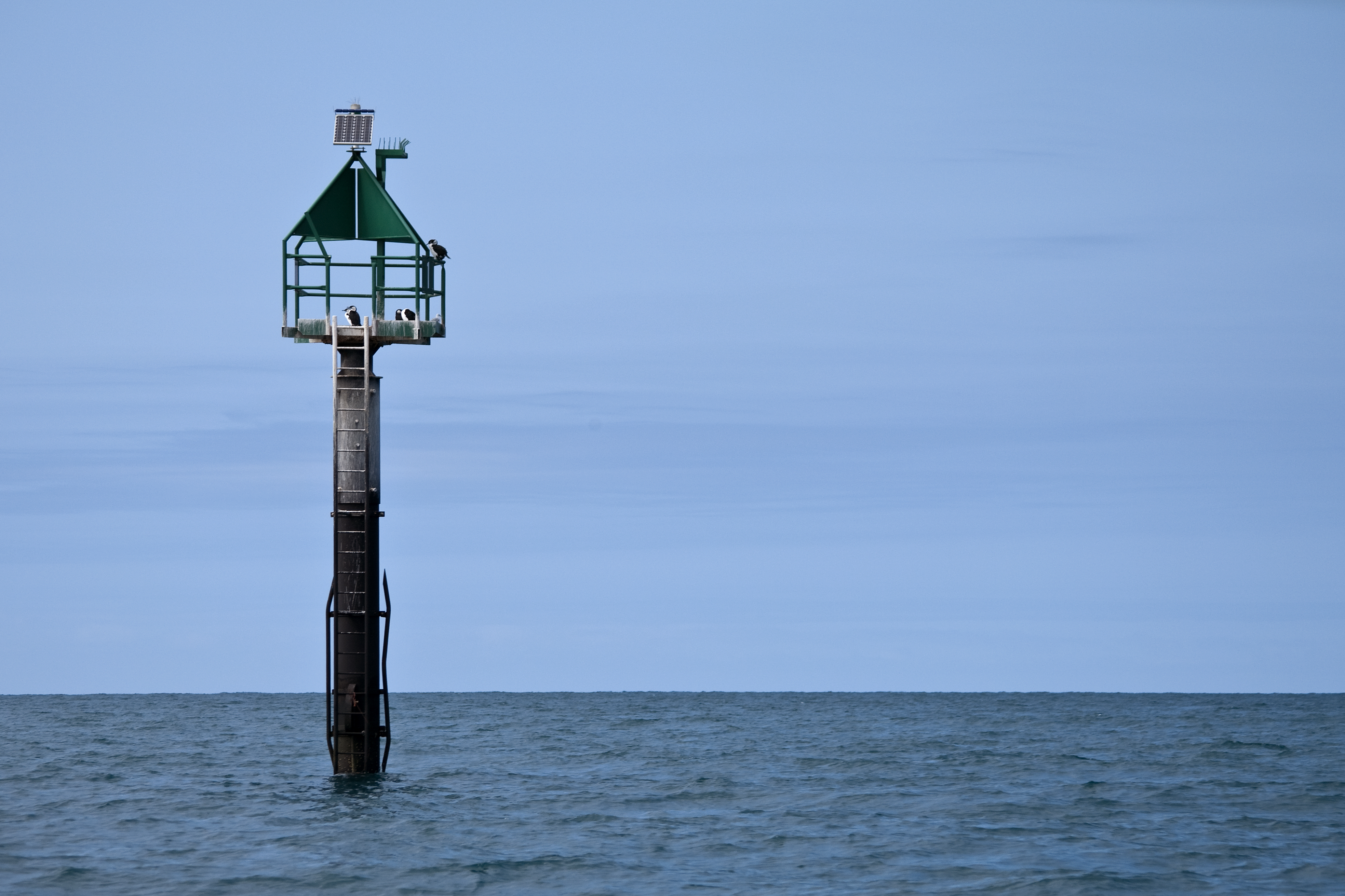 A lateral mark, used to denote the limits of a channel, located off the coast of Adelaide, South Australia near the port at Outer Harbour.